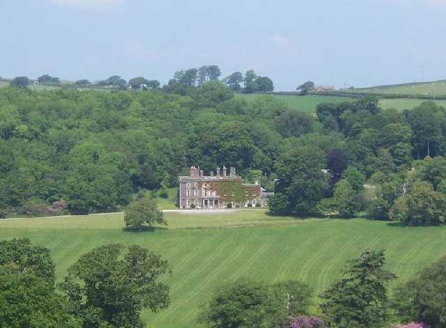 Nanteos Mansion, Aberystwyth, Ceredigion, Wales